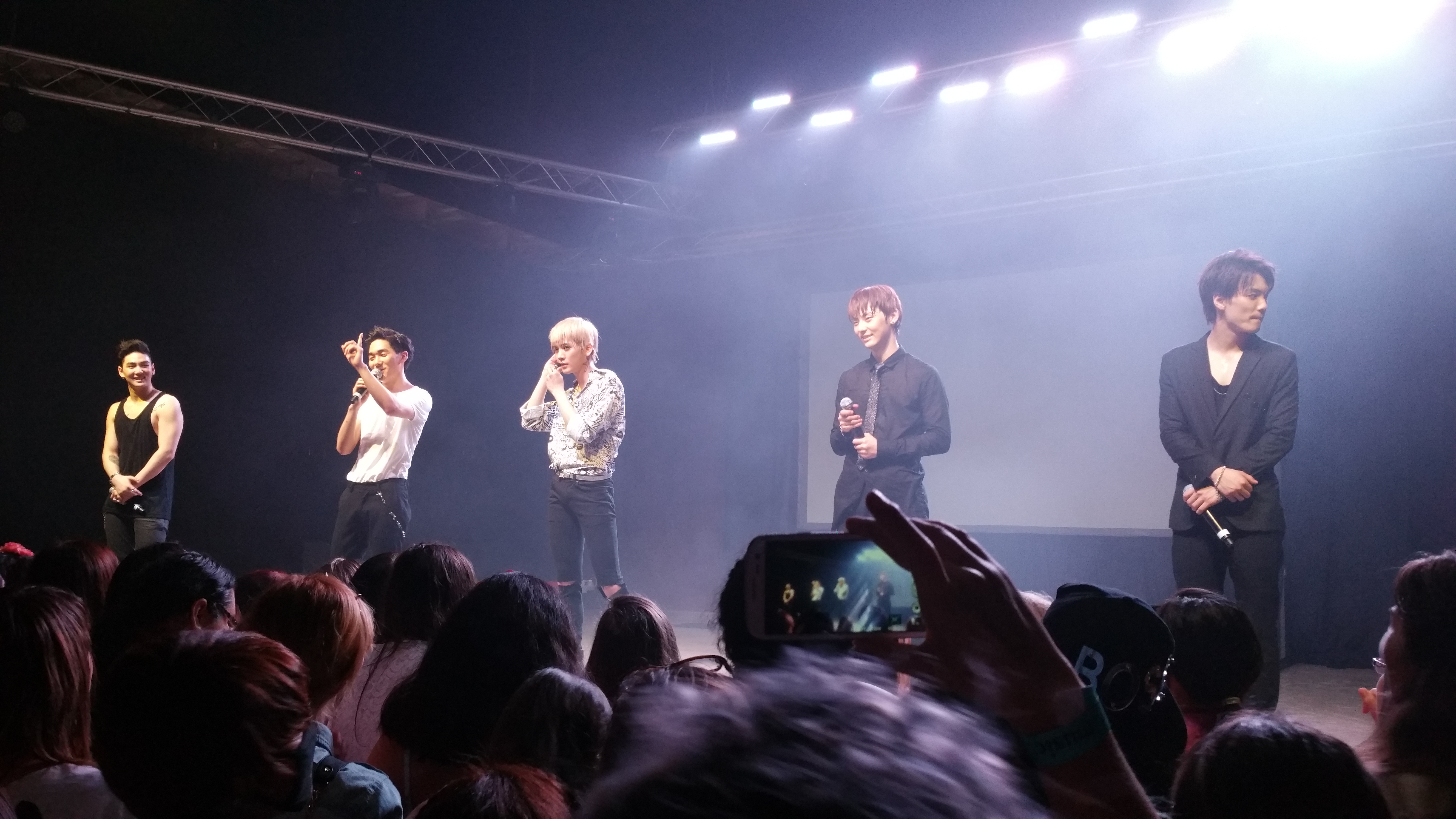 Nu'est performing at Gilley's, Dallas, Texas.